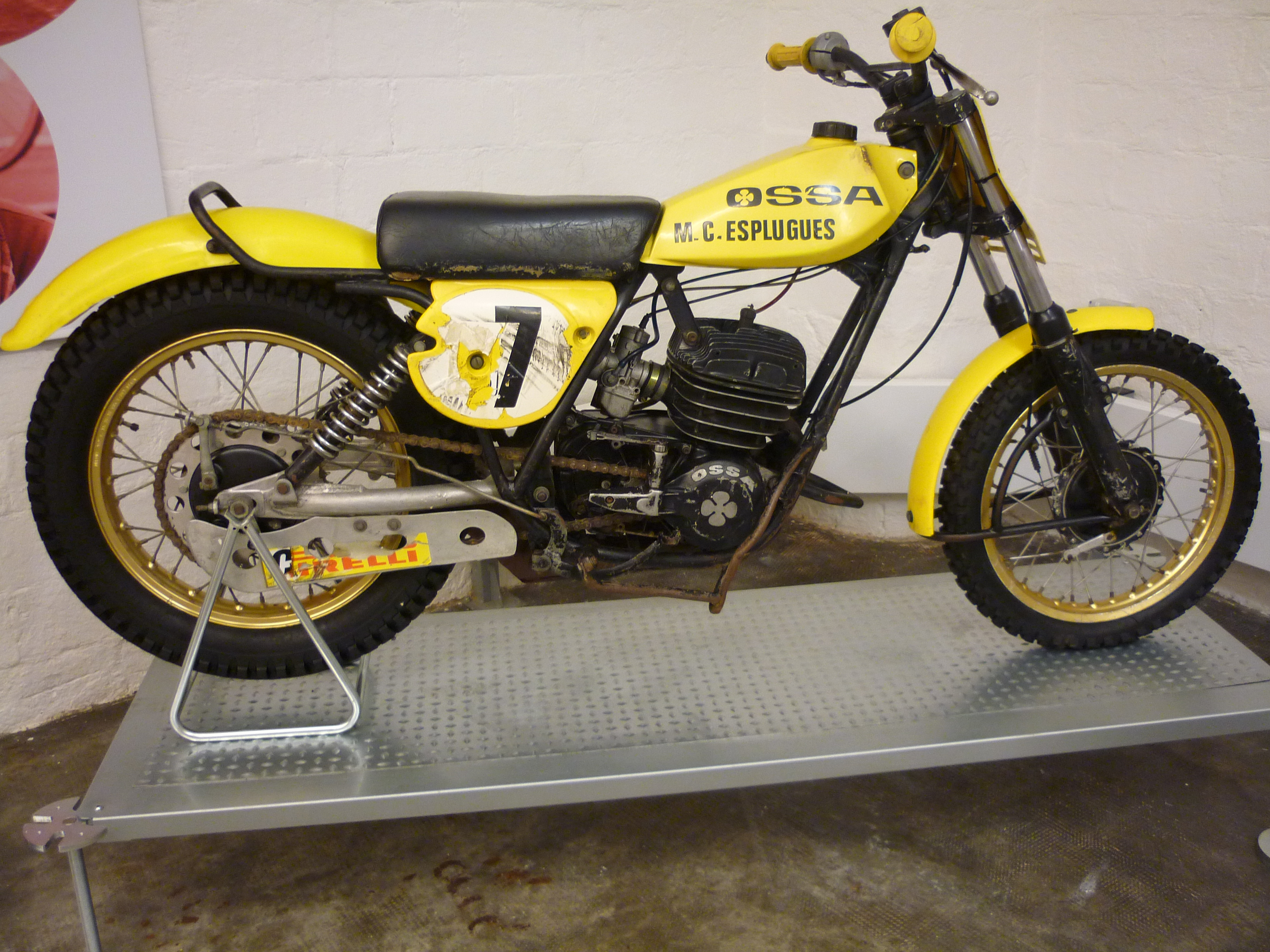 OSSA Motoball 250cc, 1980.